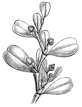 Lactoris fernandeziana Philippi. Branch